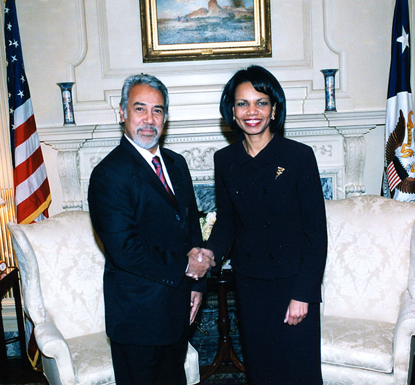 US Secretary of State Condoleezza Rice greets President Kay Rala Xanana Gusmao of the Democratic Republic of Timor-Leste (East Timor) at their bilateral. Washington, DCJanuary 25, 2006